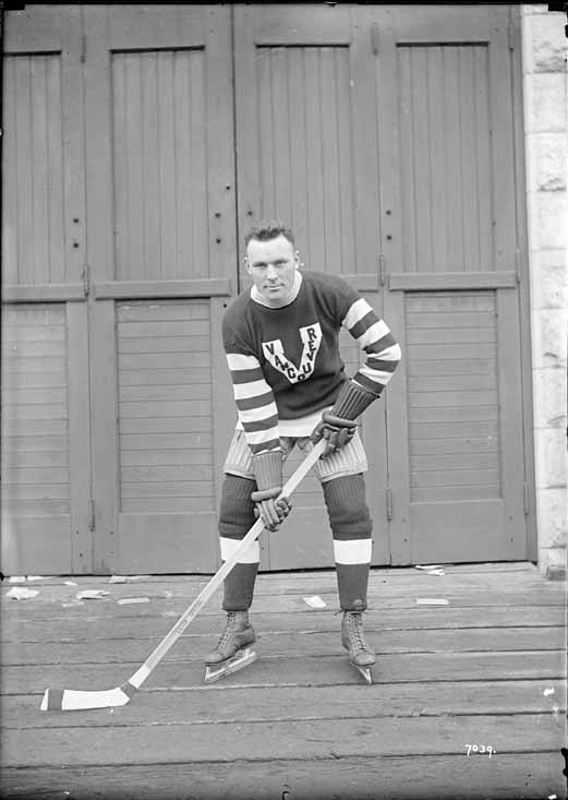 Art Duncan, from a series of pictures of the 1918–19 Vancouver Millionaires team.